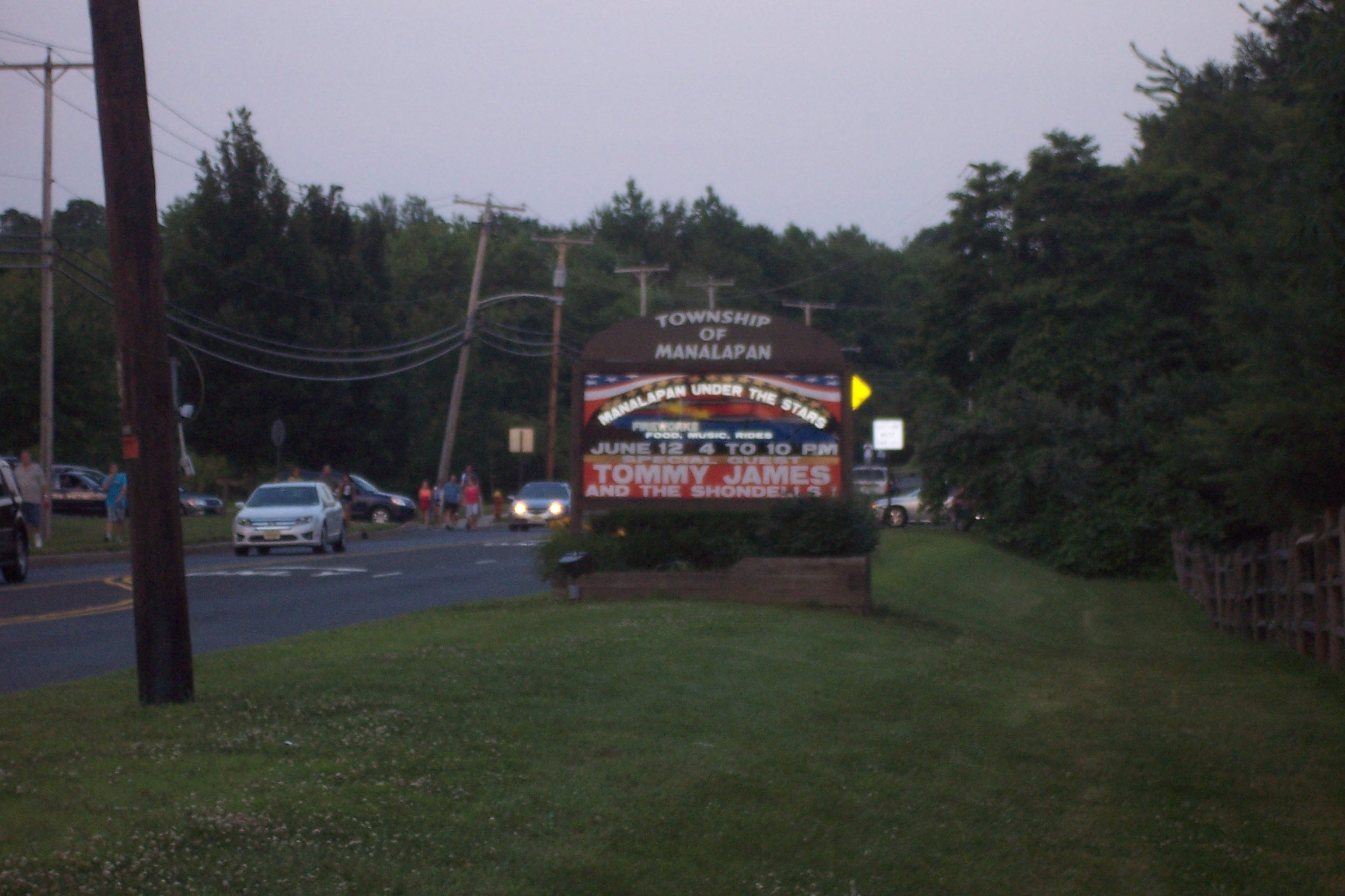 People coming to the annual Manalapan Under the Stars event at the Manalapan Recreation Center in Manalapan Township, New Jersey.